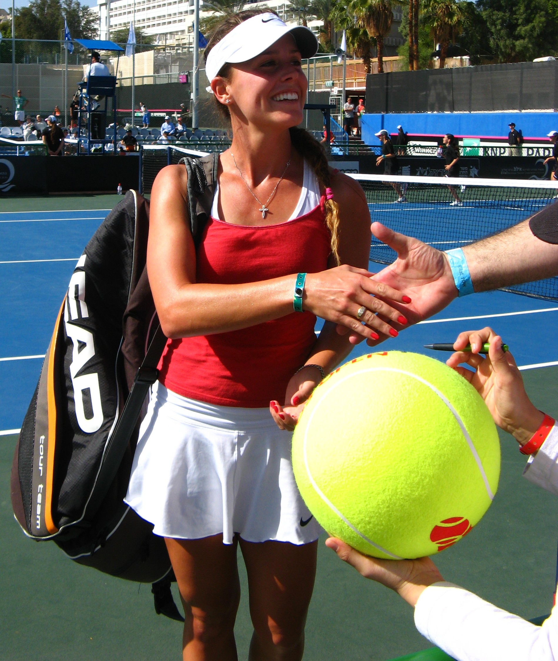 The tennis player Michelle Larcher de Brito of Portugal during her match against Tímea Babos of Hungary in the 2nd day of Fed Cup Group I 2013 Europe/ Africa in Eilat, Israel.